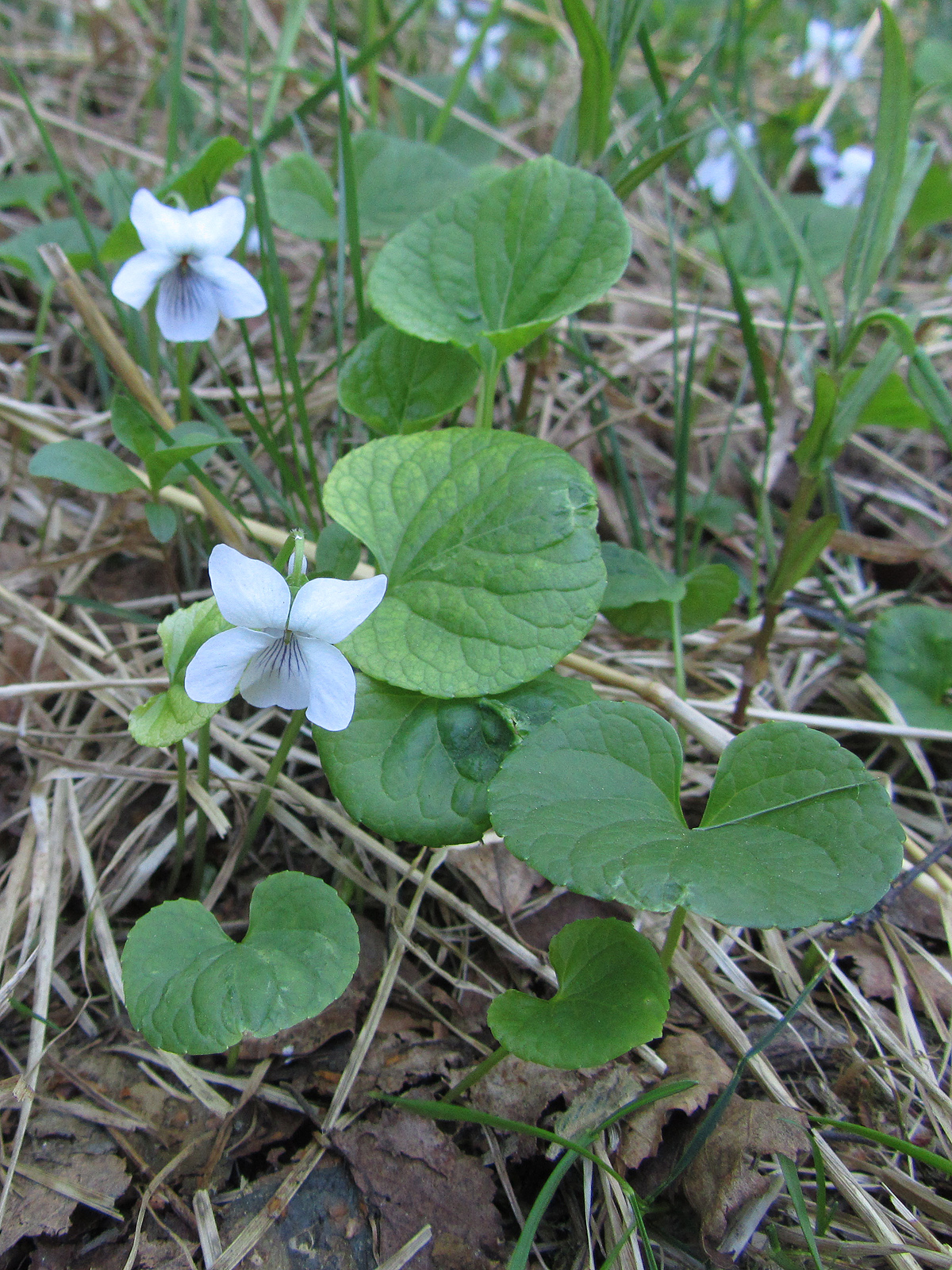 Violaceae, Viola epipsila